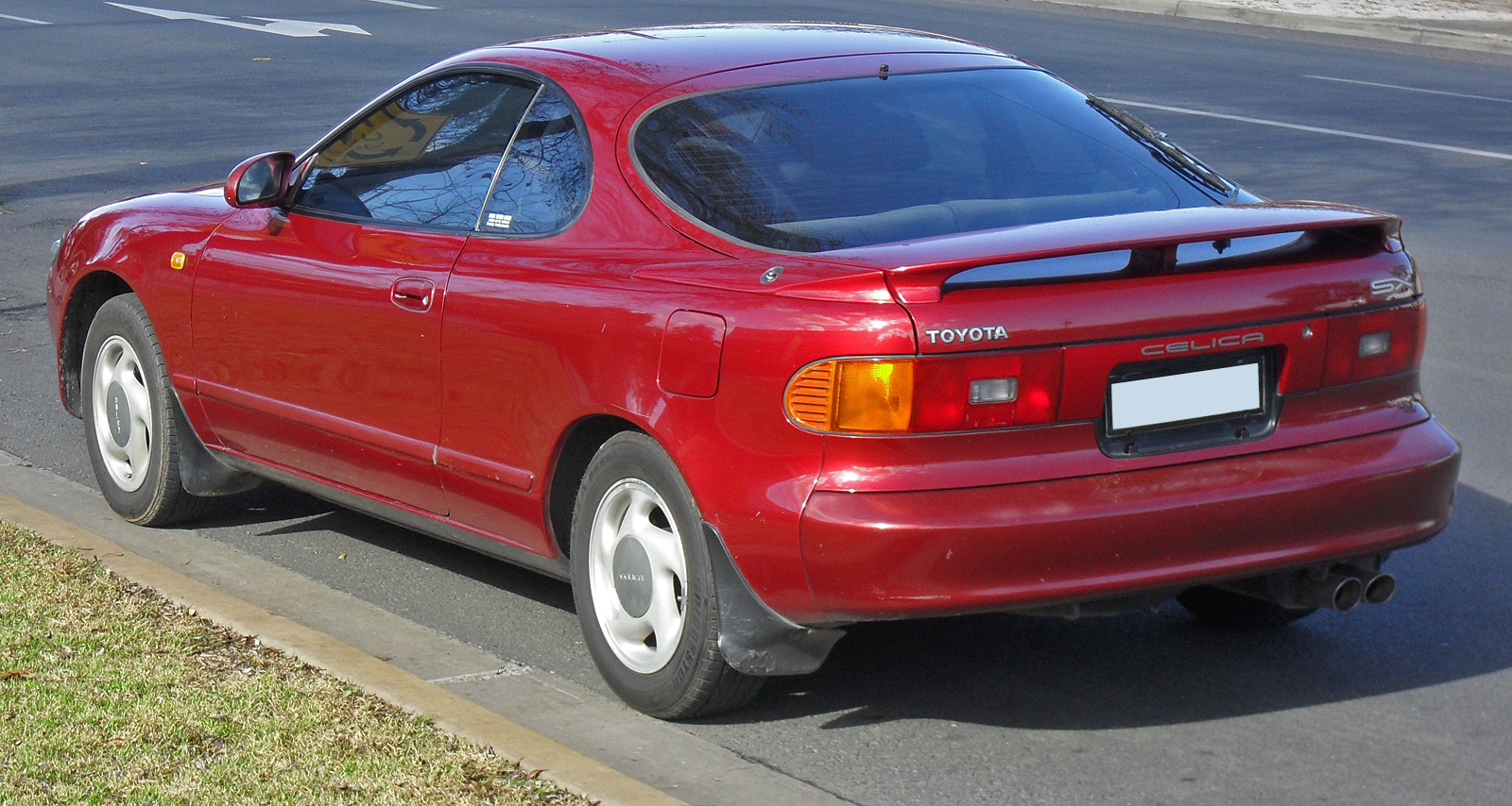 1989–1991 Toyota Celica (ST184R) SX liftback photographed in Australia.